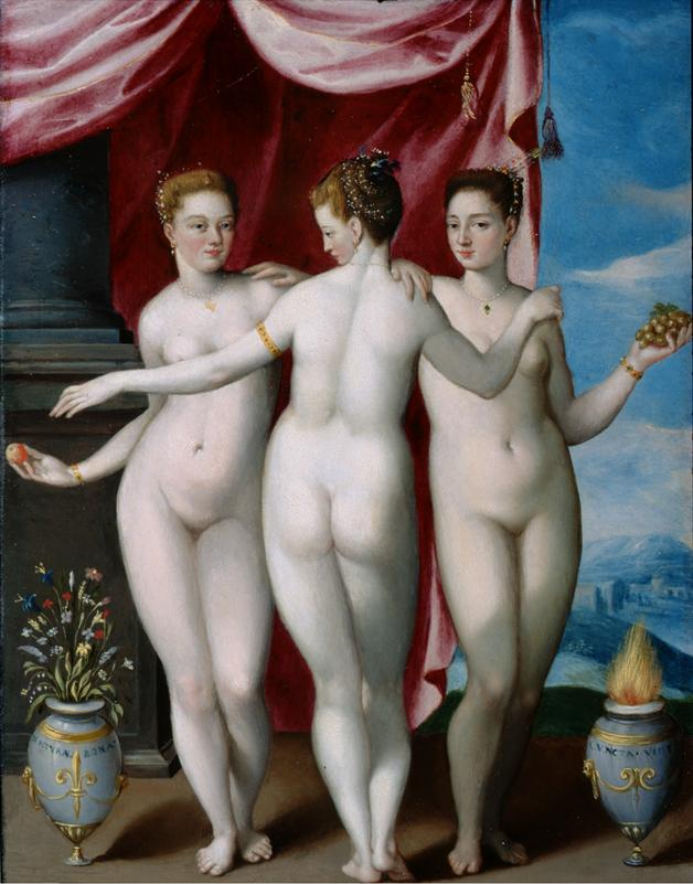 Portraits of Roman Beauties including presumably Clelia Farnese, the secret lover of Ferdinando de’ Medici, for whom this was painted.